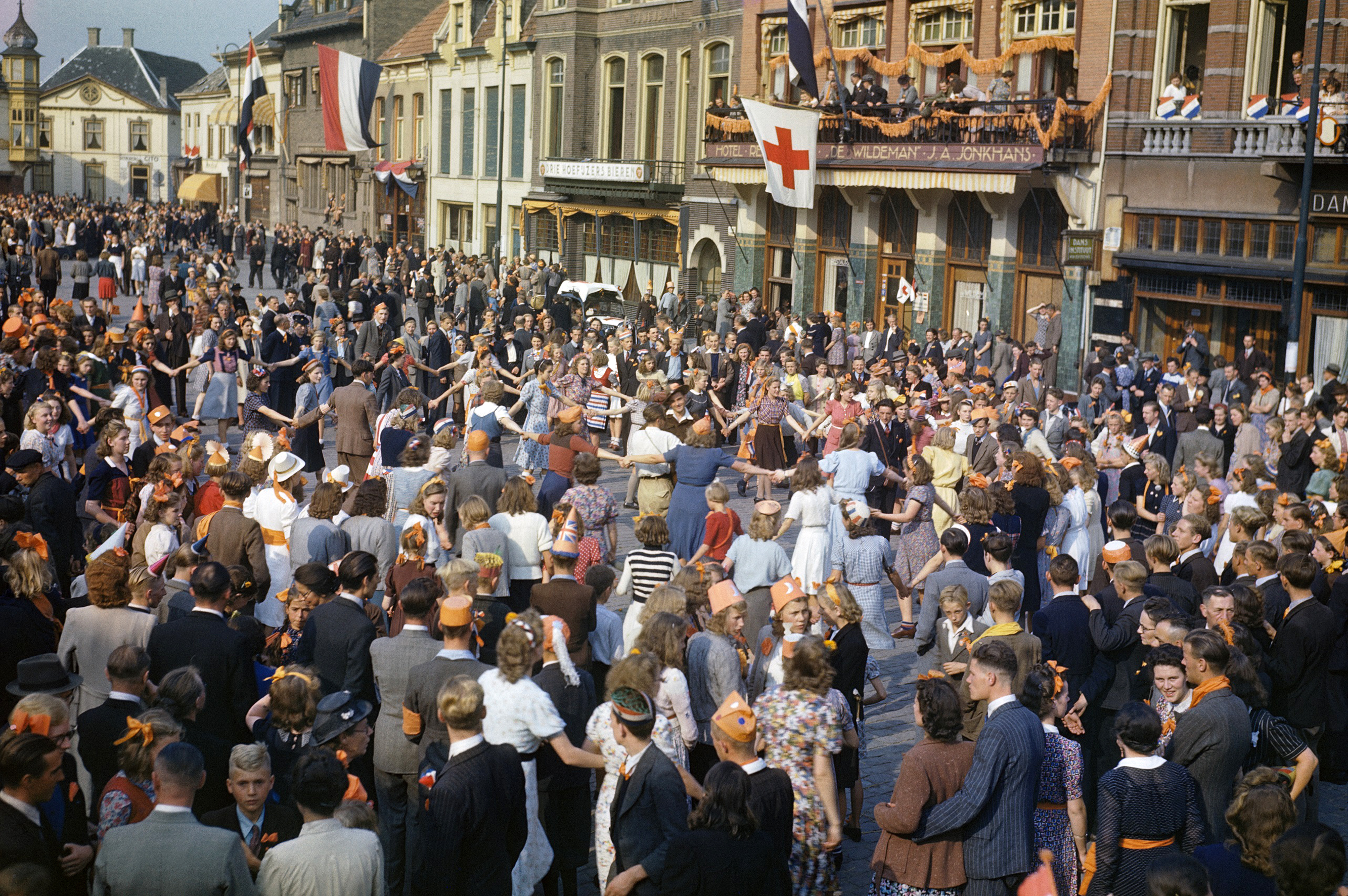 The Liberation of Eindhoven, Holland, 20 September 1944 Civilians dancing in the square of Eindhoven, the first major town in Holland to be liberated. Eindhoven was later bombed by the German Air Force.